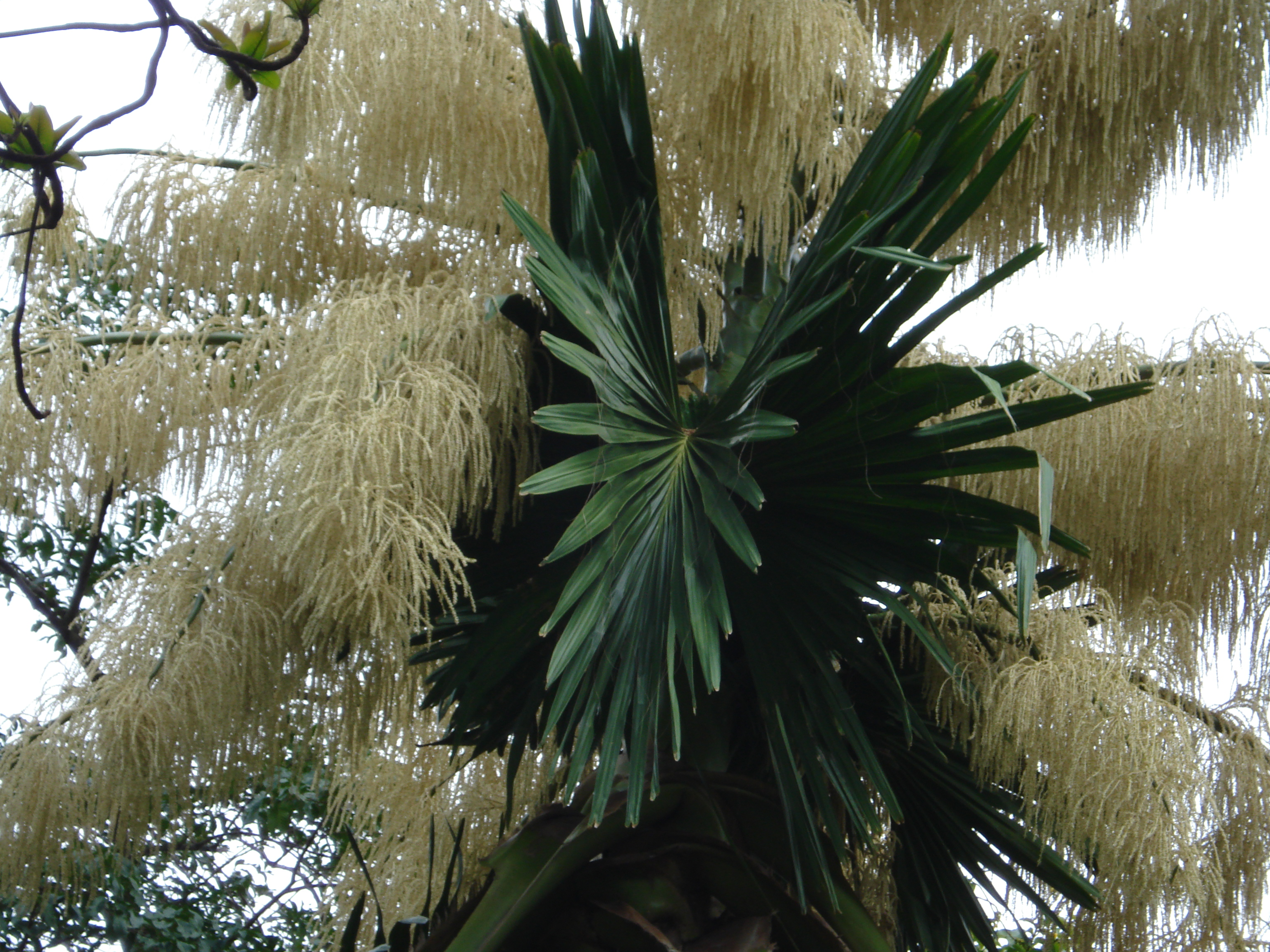 Flowering Talipot Palm at Foster Botanical Gardens, Honolulu, Hawaii